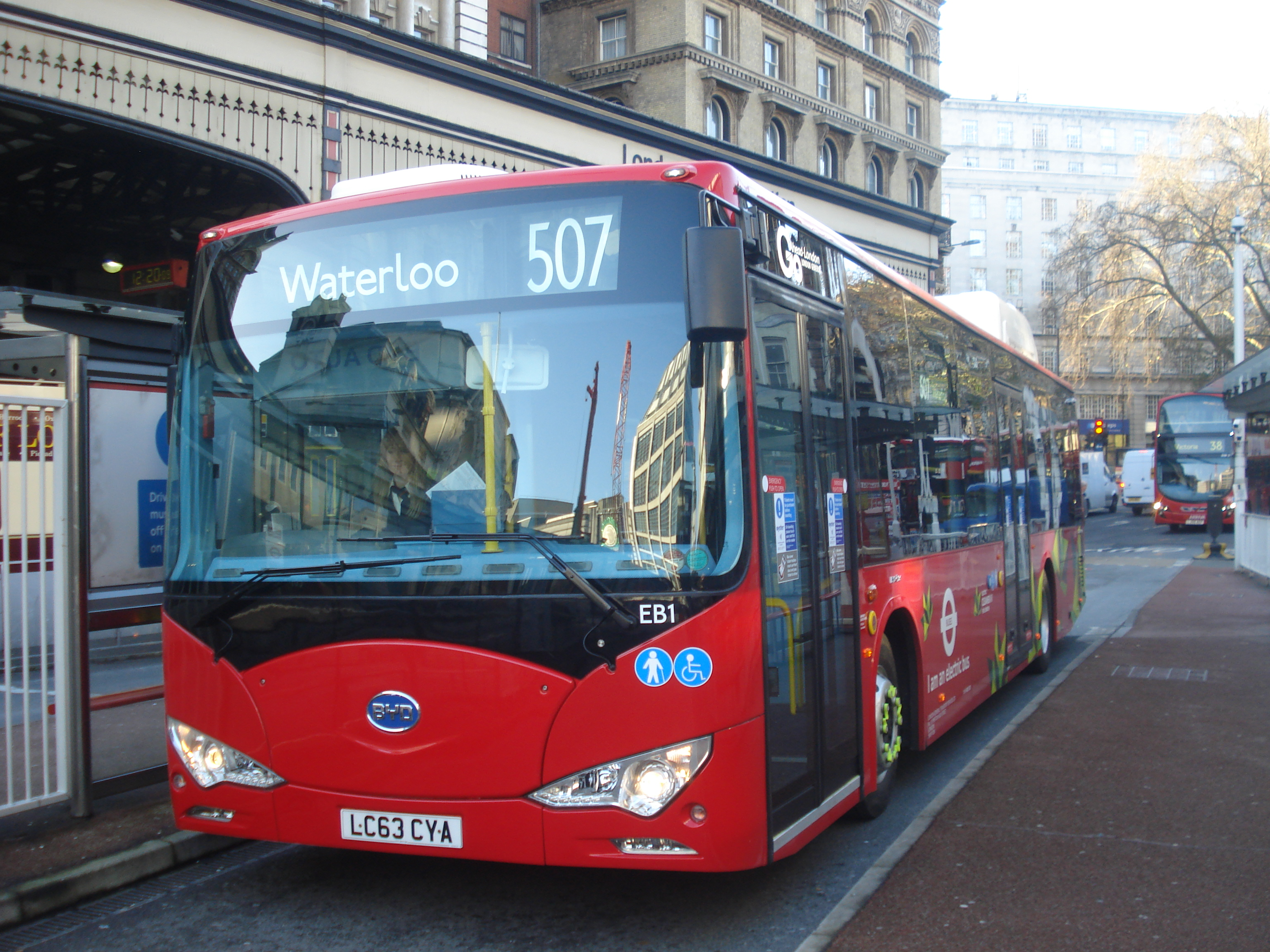 London General EB1 on Route 507, Victoria